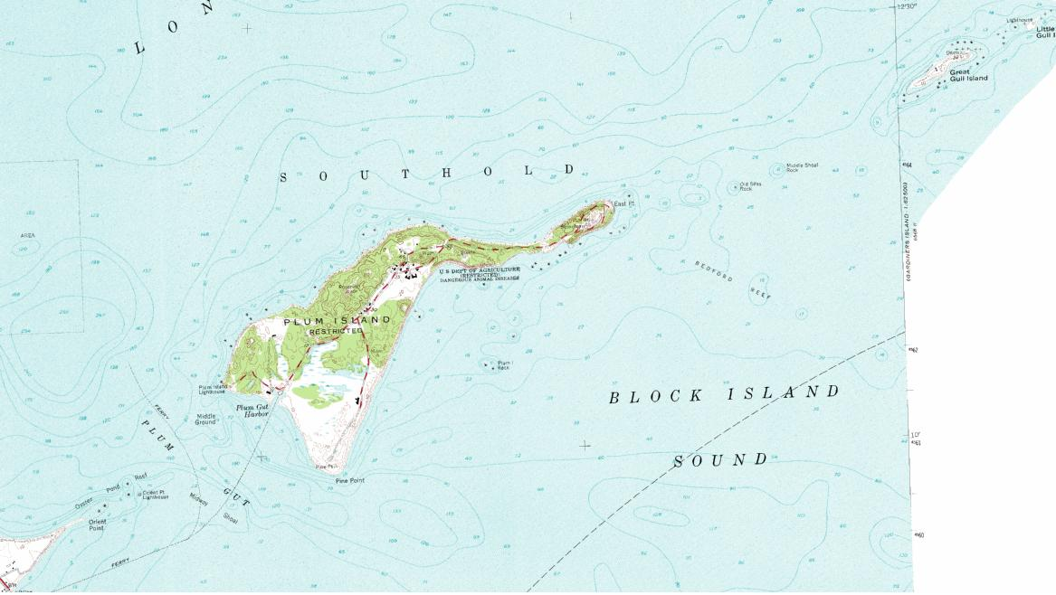 1954 USGS map - Plum Island Quadrangle